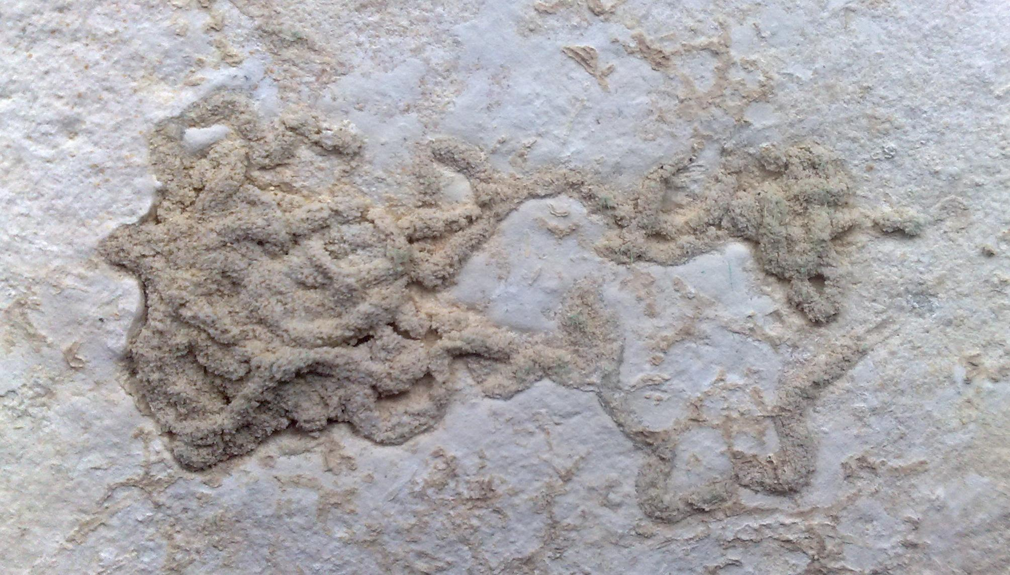 Lumbricaria, a Coprolite from the Plattenkalk at Mühlheim (Mörnsheim) in Bavaria, Germany. Collection of the GZG, University of Göttingen